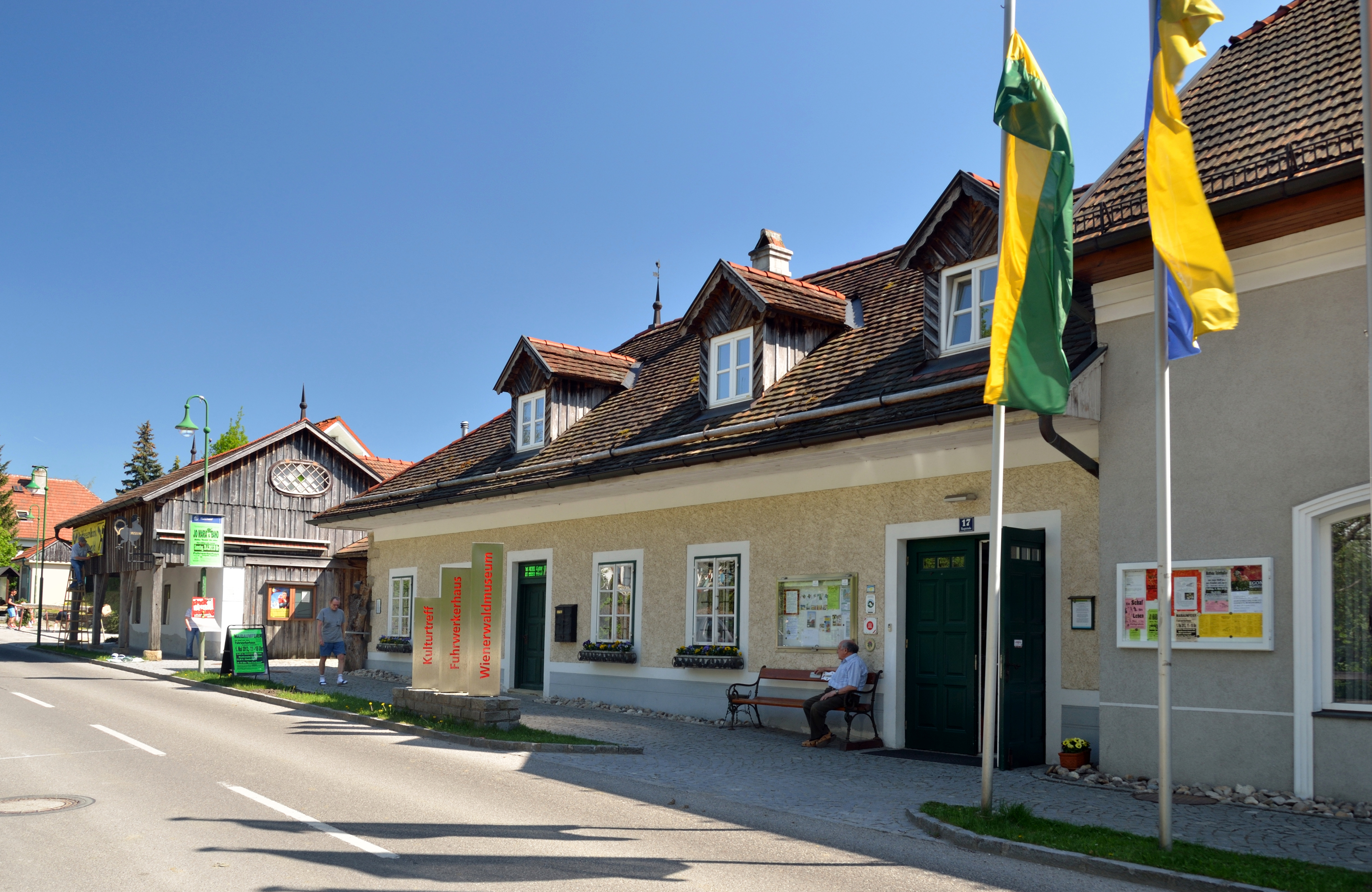 The Wienerwaldmuseum in Eichgraben, a local museum in Lower Austria, is protected as a cultural heritage monument.